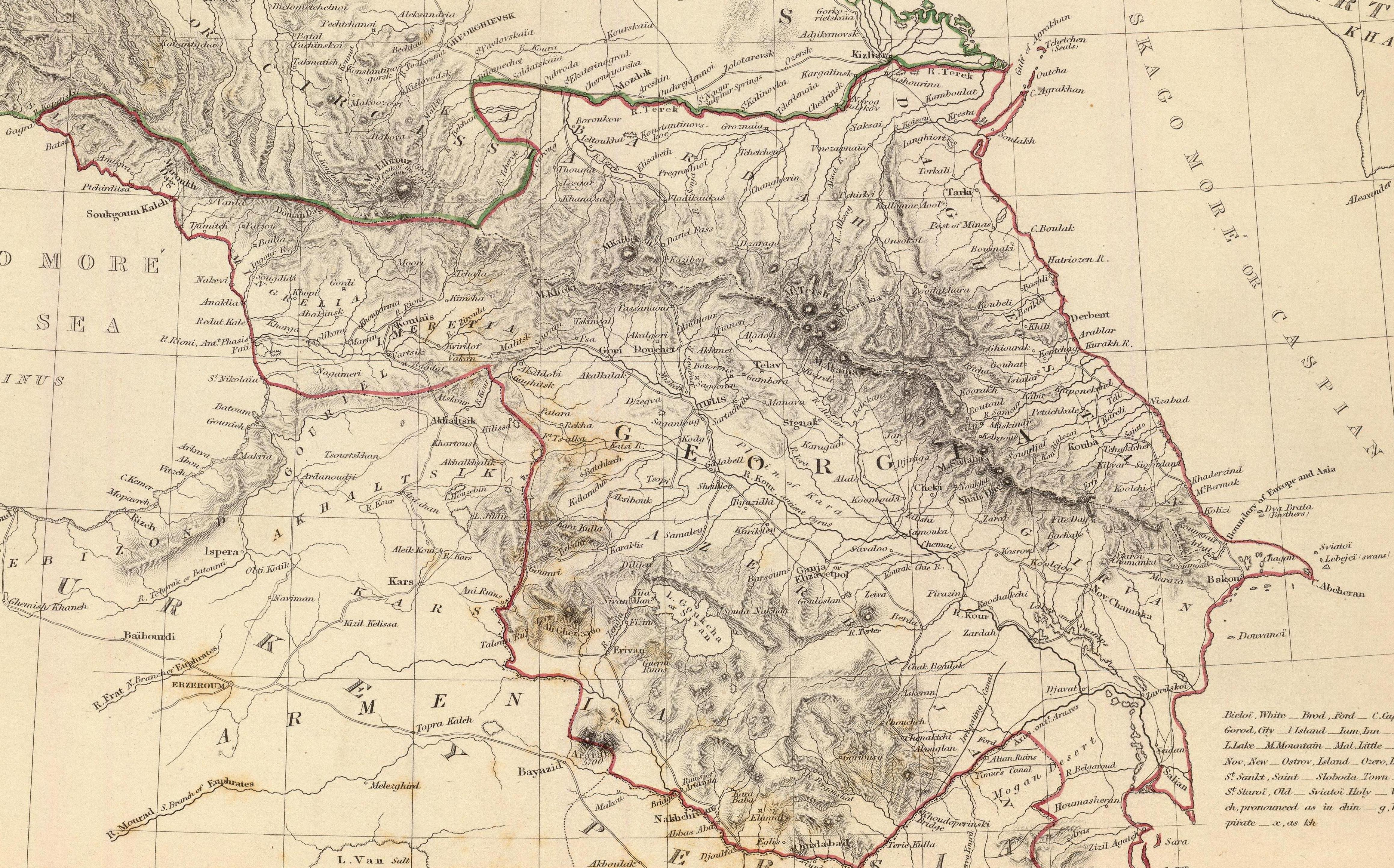 Russia in Europe Part IX and Georgia. Caucasus, Circassia, Astrakhan, Georgia. Published under the superintendence of the Society for the Diffusion of Useful Knowledge. Engraved by J. & C. Walker. London, published by Baldwin and Cradock, 47 Paternoster Row Augt. 1st. 1835 . (London: Chapman & Hall, 1844)